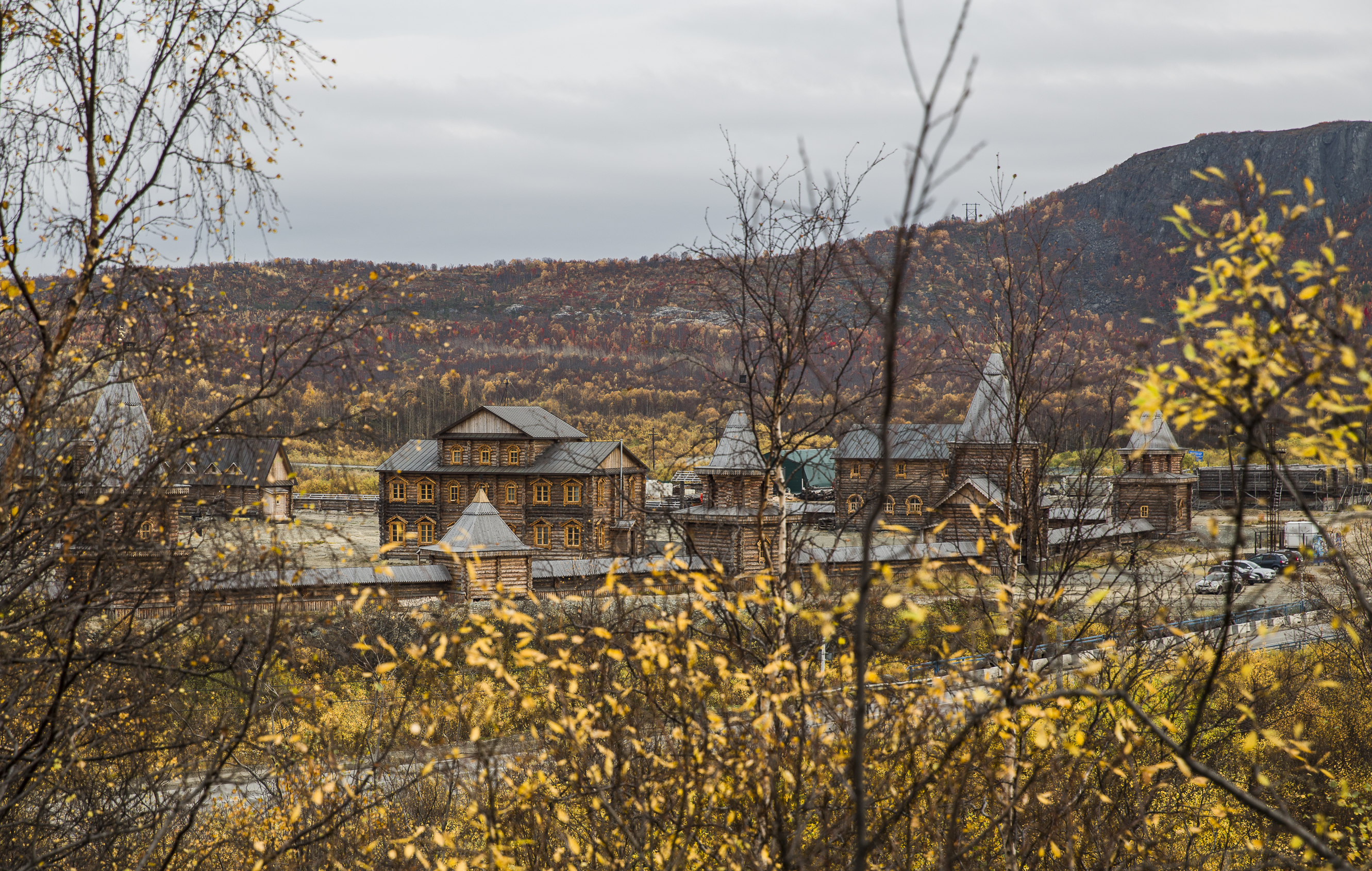 Pechenga Monastery, Kola Peninsula, Russia